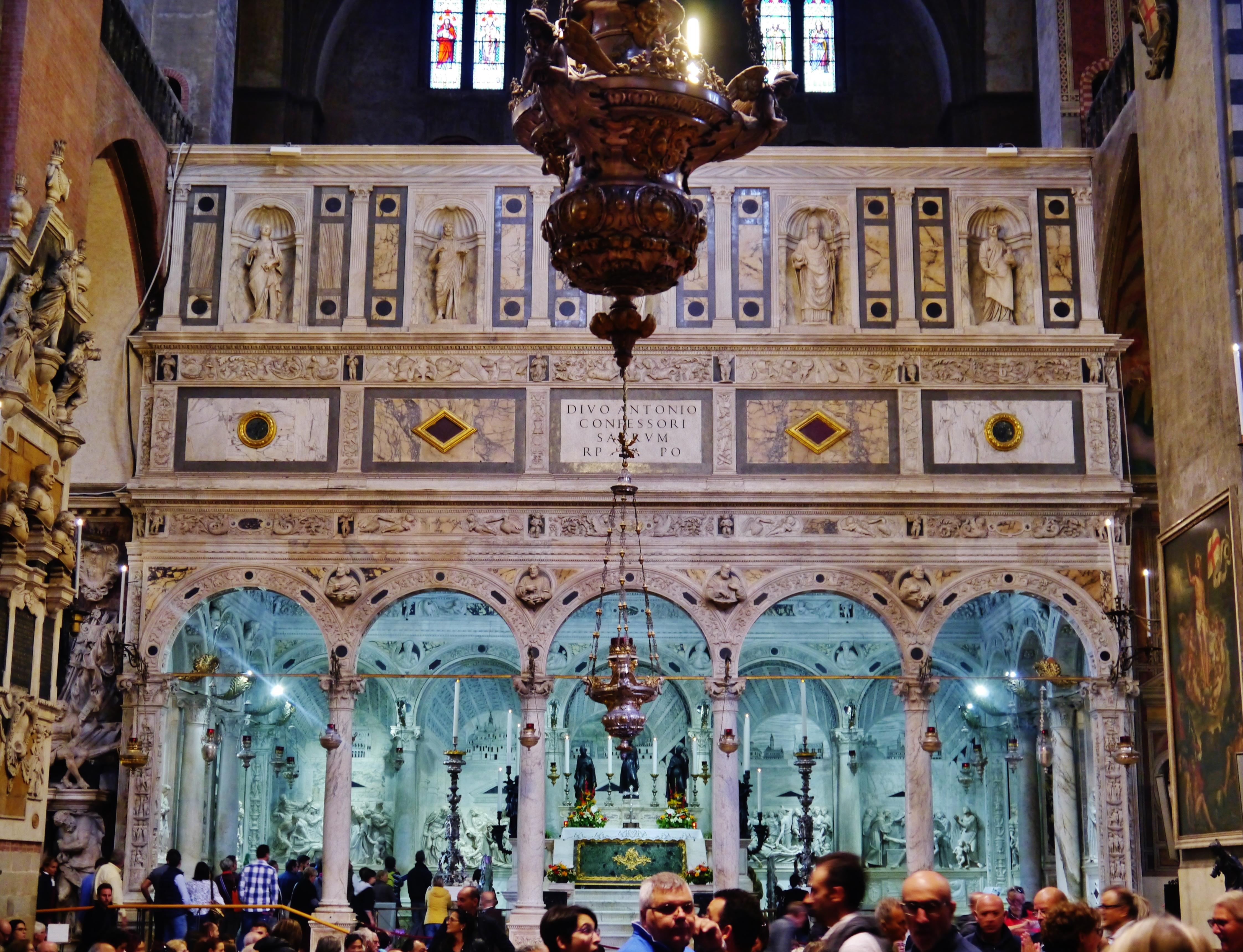 Chapel of St. Anthony of the Basilica of St. Anthony, Padua, Province of Padua, Region of Veneto, Italy